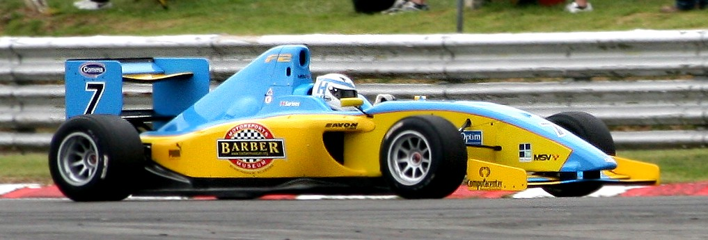 Henry Surtees driving at the Brands Hatch round of the 2009 FIA Formula Two Championship